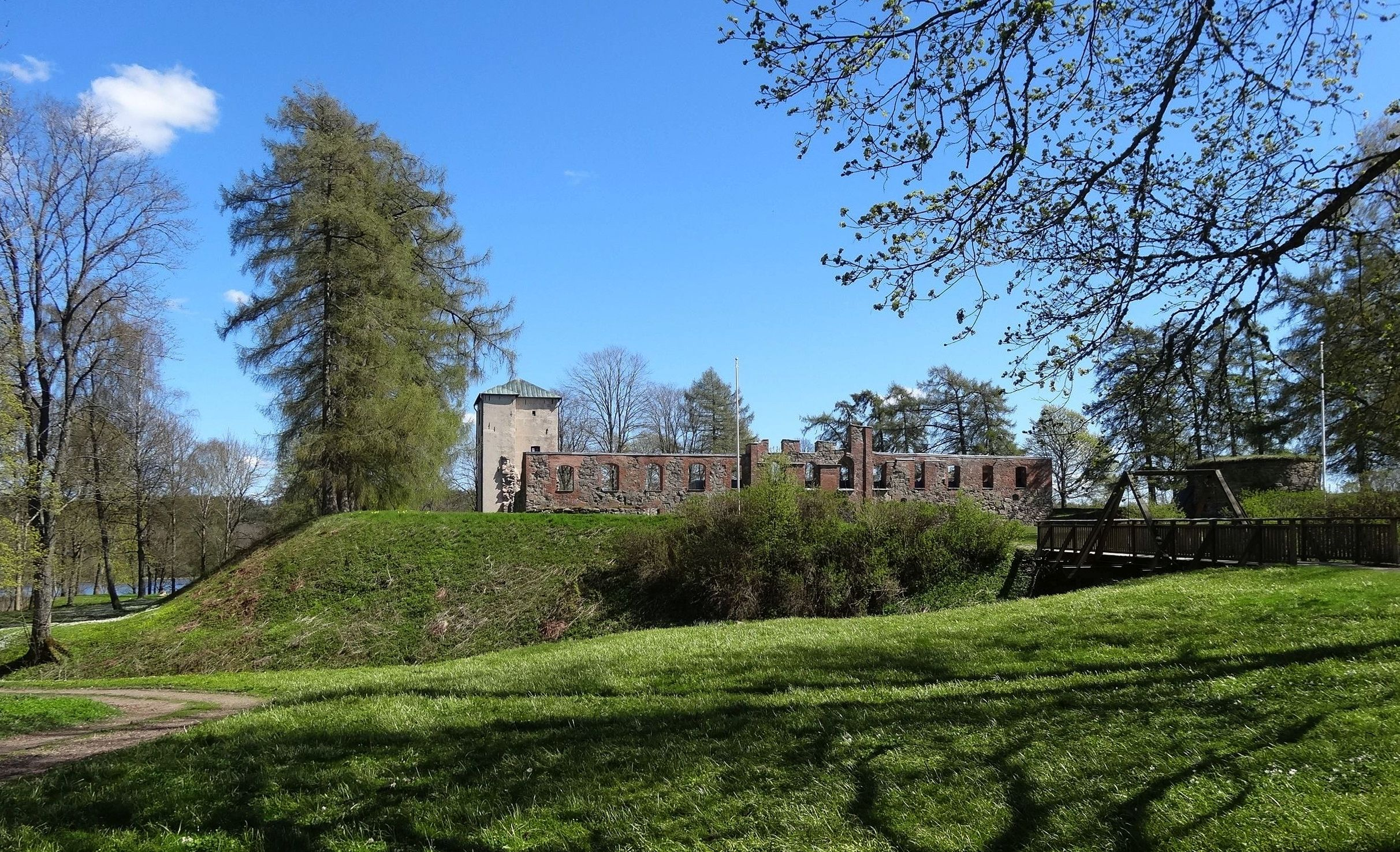 The ruins of 16th-century Gräfsnäs castle at lake Anten north of Alingsås,Västergötland Sweden